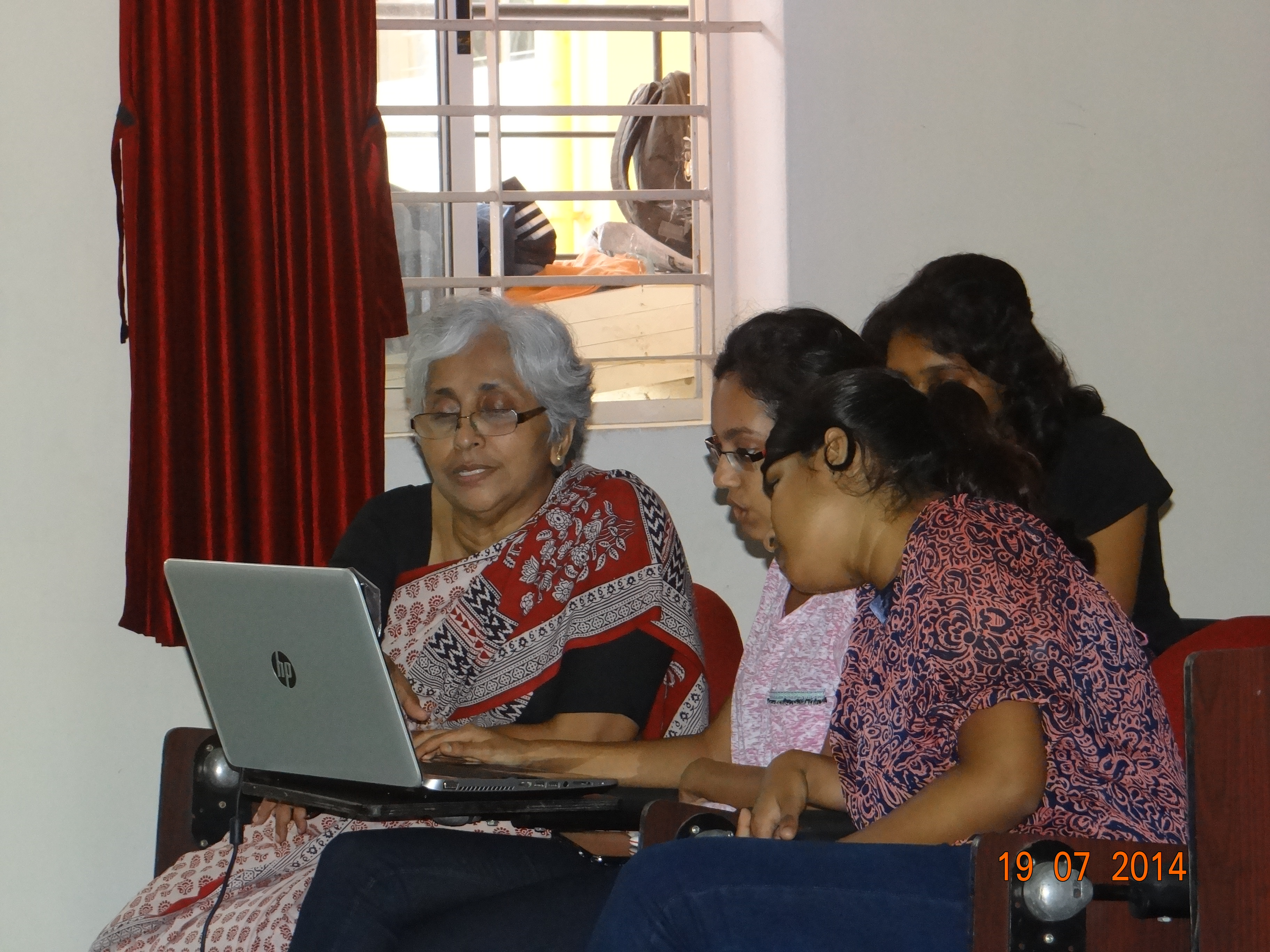 Wikiedit training at the School of Social Work, Roshni Nilaya, Mangalore, by Ms Harriot.jpg Other information Wikiedit training at the School of Social Work, Roshni Nilaya, Mangalore, by Ms Harriot (clickeb by Ashwin Ash).jpg